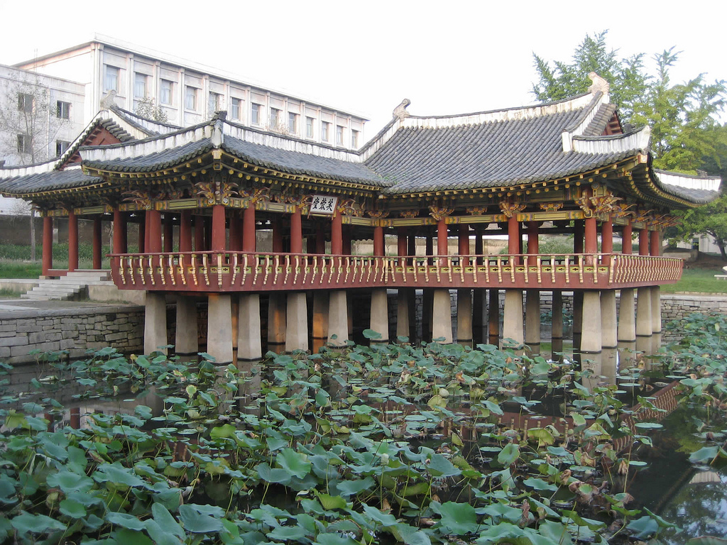 The Puyong Pavilion in downtown Haeju, DPRK.